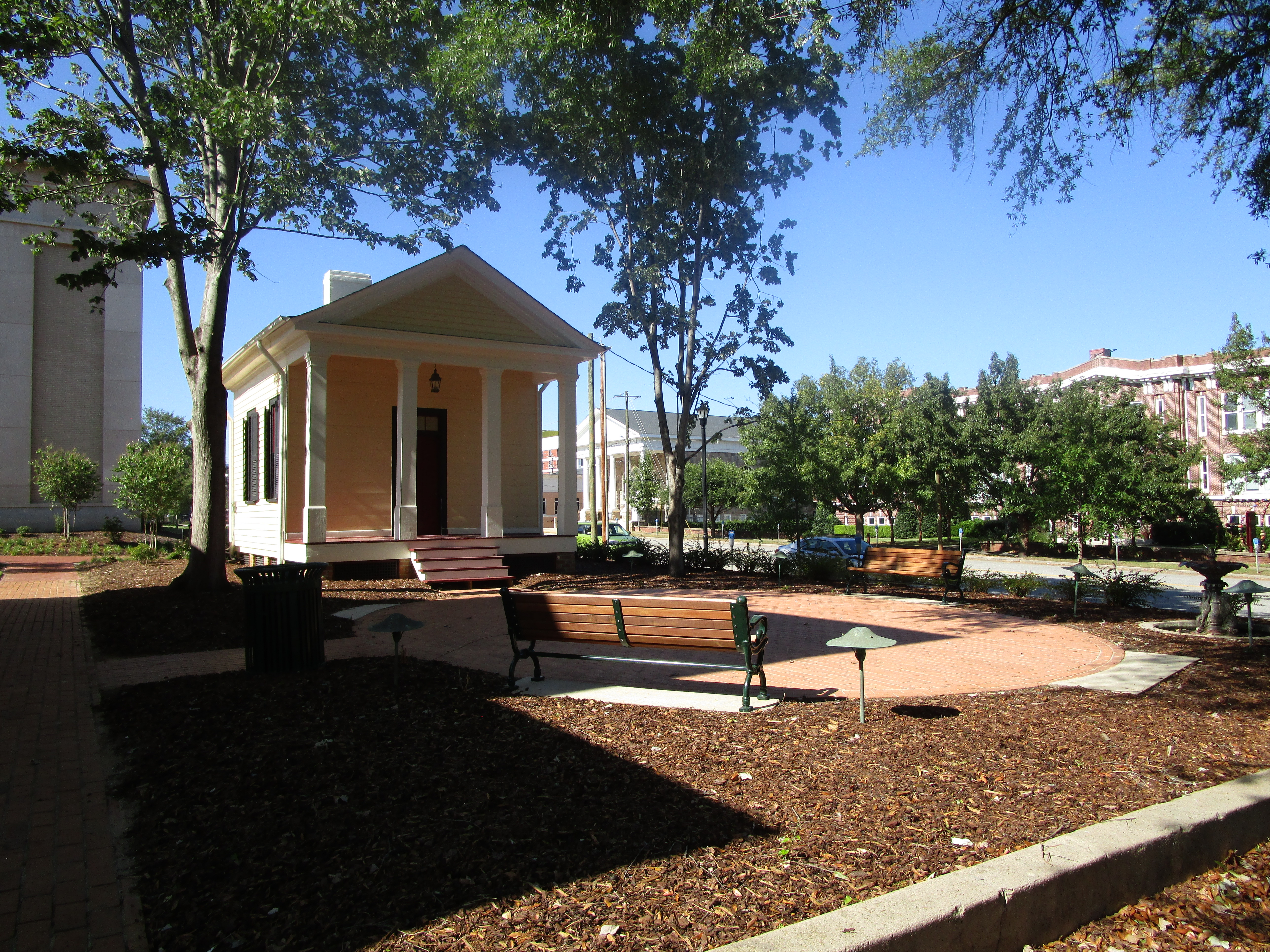 Outbuilding most likely used as an office